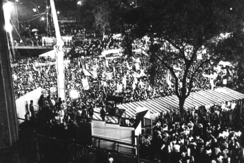 Diretas Já rally in the city of São Paulo.